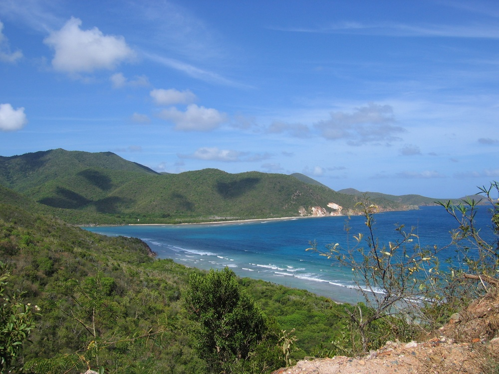 Reef Bay and Virgin Islands National Park (St. John, USVI) as seen from road on Cocoloba Point